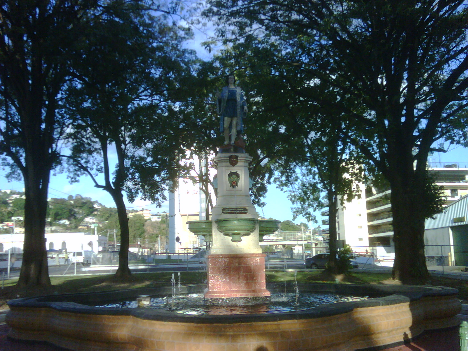 Christopher Columbus square fountain, Port of Spain, Trinidad.